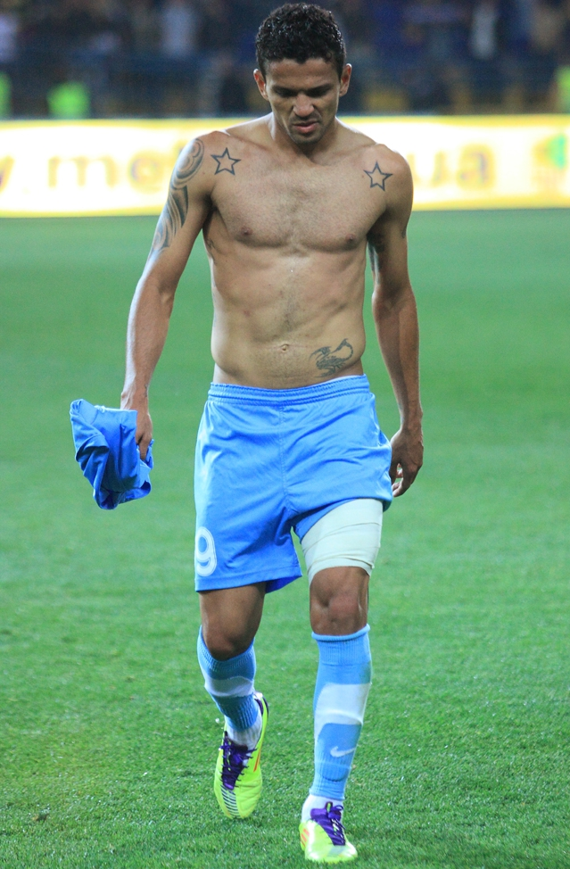 Матуес